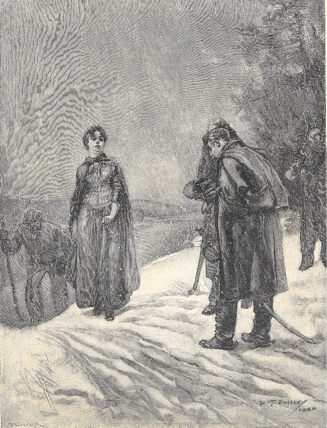 "I COME TO CLAIM MY DEAD." sketch by artist